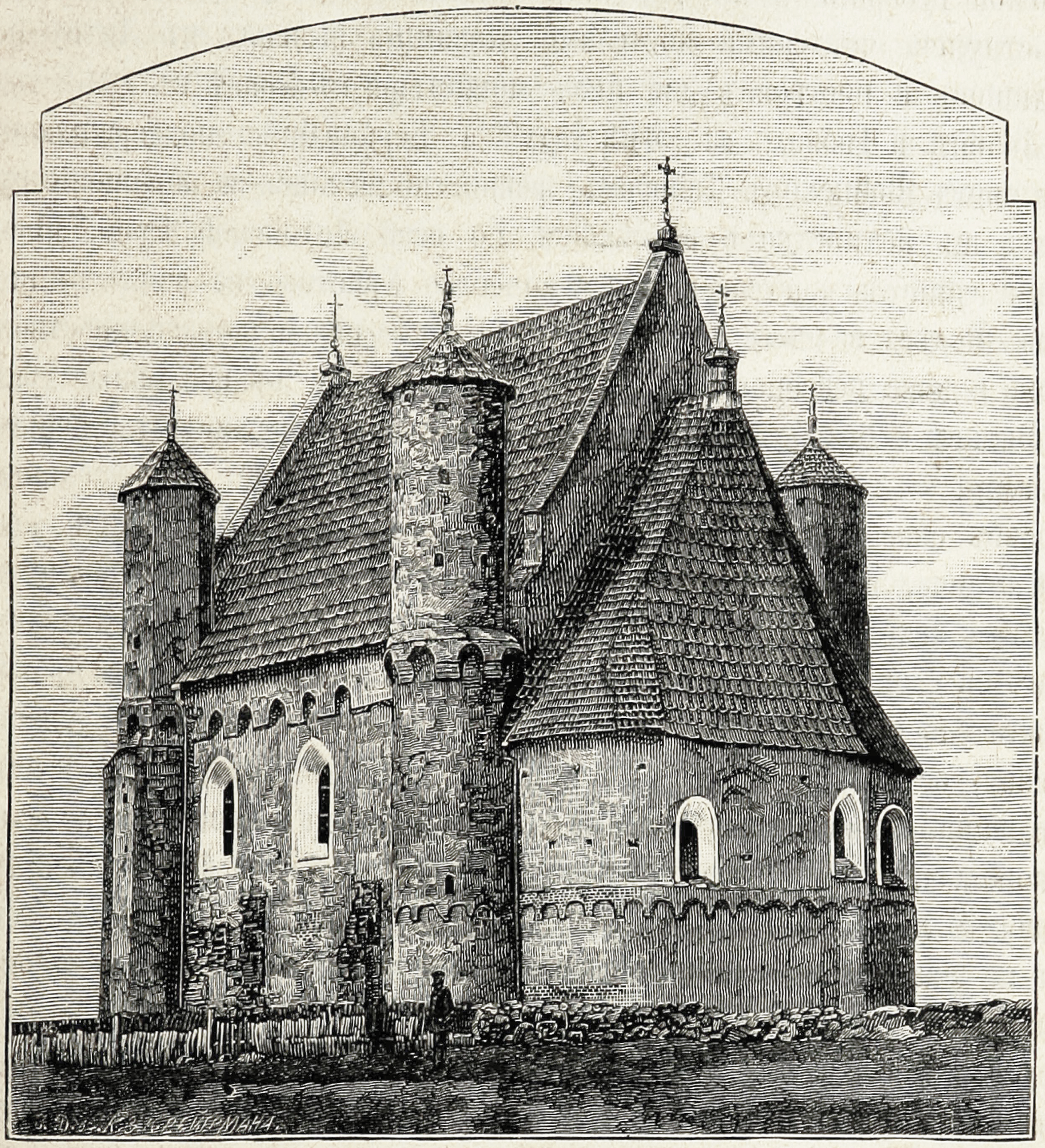 Church of St. Michael in Synkovičy